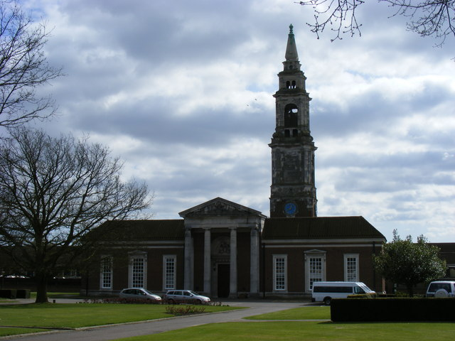 Royal Hospital School The reception block and bell tower.